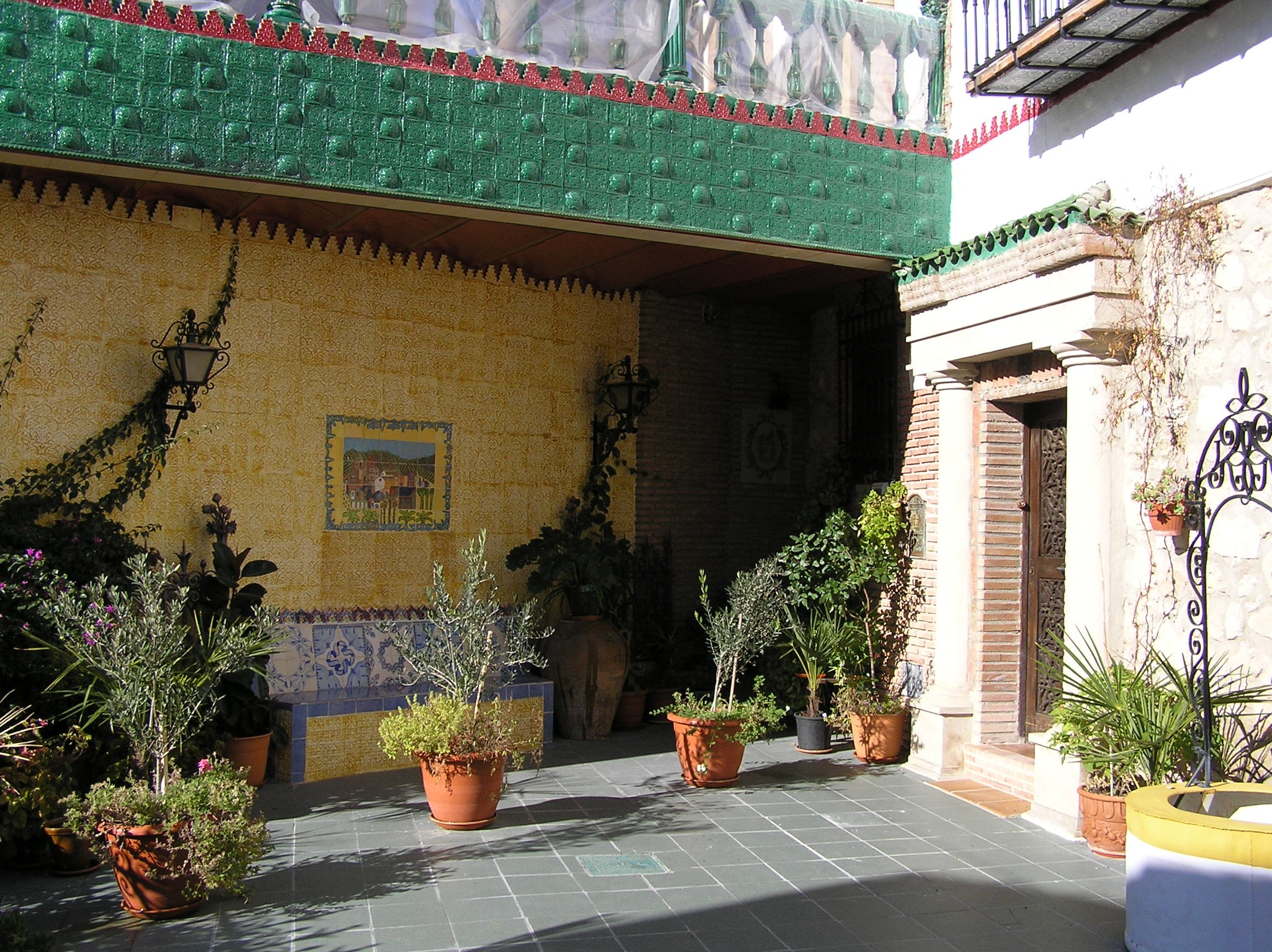 Casa de los Sandovales